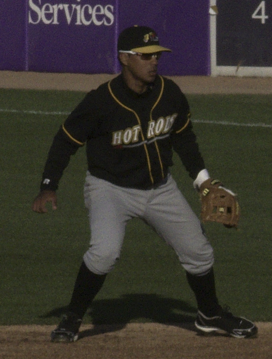 Juniel Querecuto of the Bowling Green Hot Rods plays second base during a 2012 game at Fifth Third Ballpark in Comstock Park, Michigan